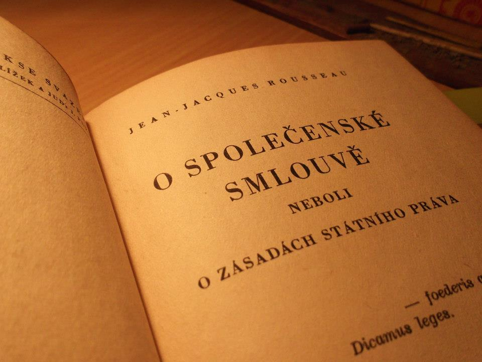 Jean-Jacques Rousseau, The Social Contract, czech translation